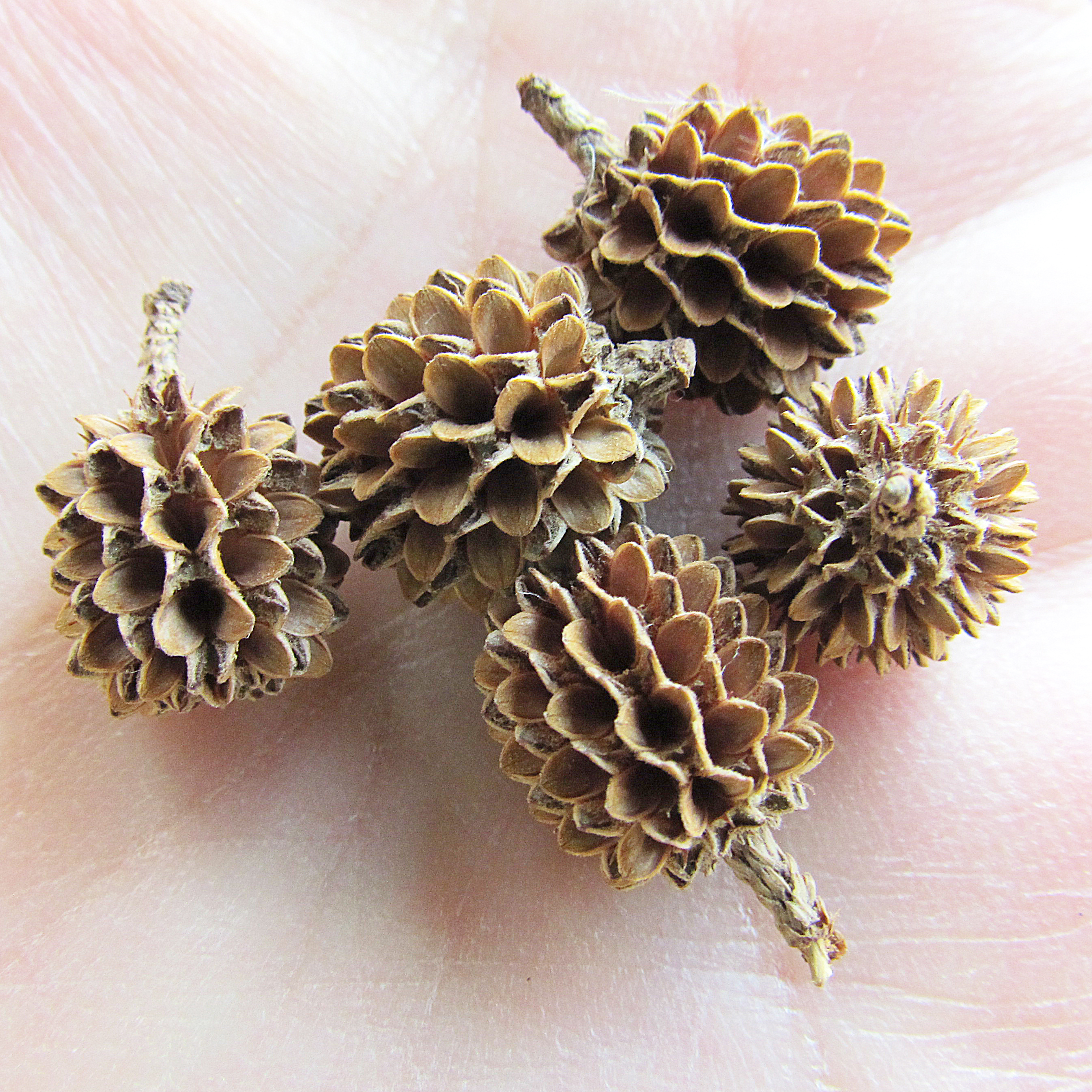 Casuarina cunninghamiana, "cones"